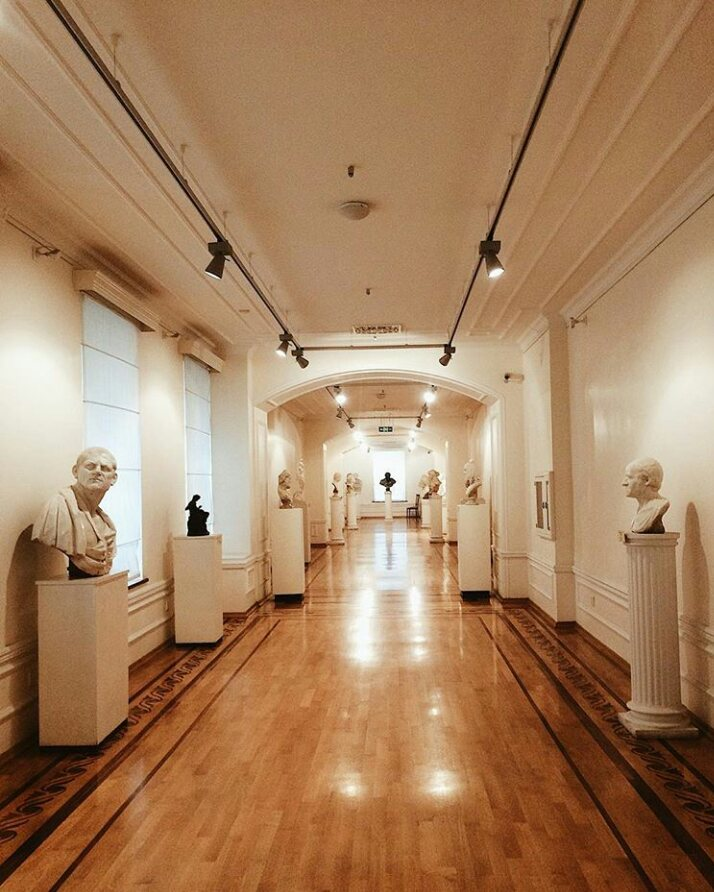 Muzey